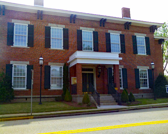 Front of the Columbia County Courthouse, located along State Route 56 in Appling, Georgia, United States. Built in 1856, it is listed on the National Register of Historic Places.